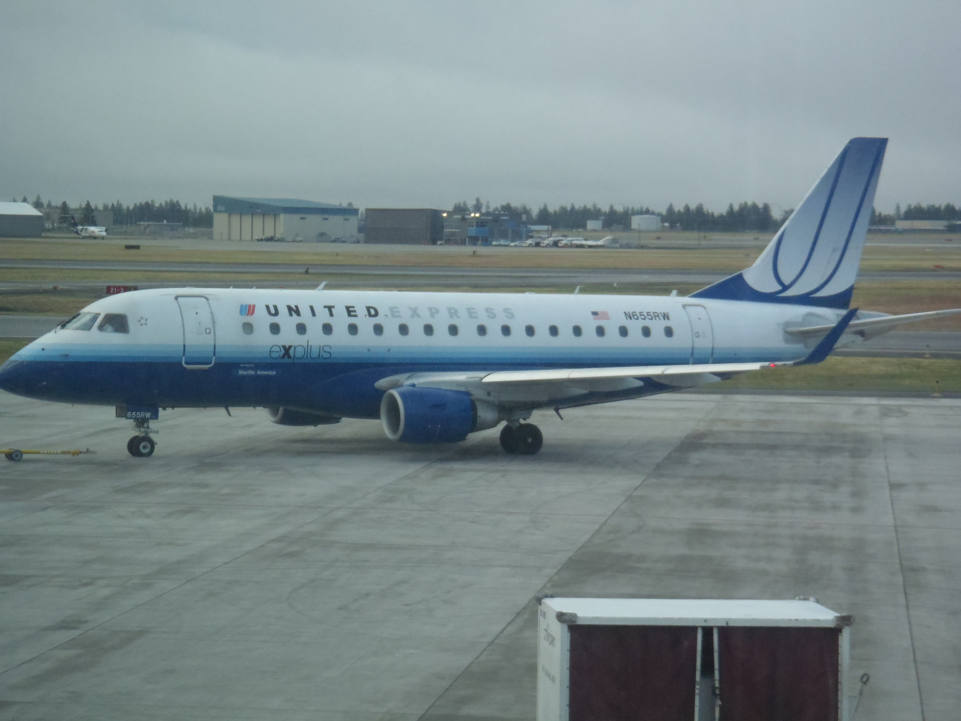 United Express ERJ-170 (Spokane Airport)